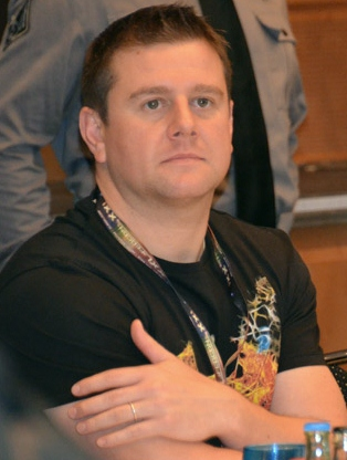 Kai Owen at Fedcon in 2012